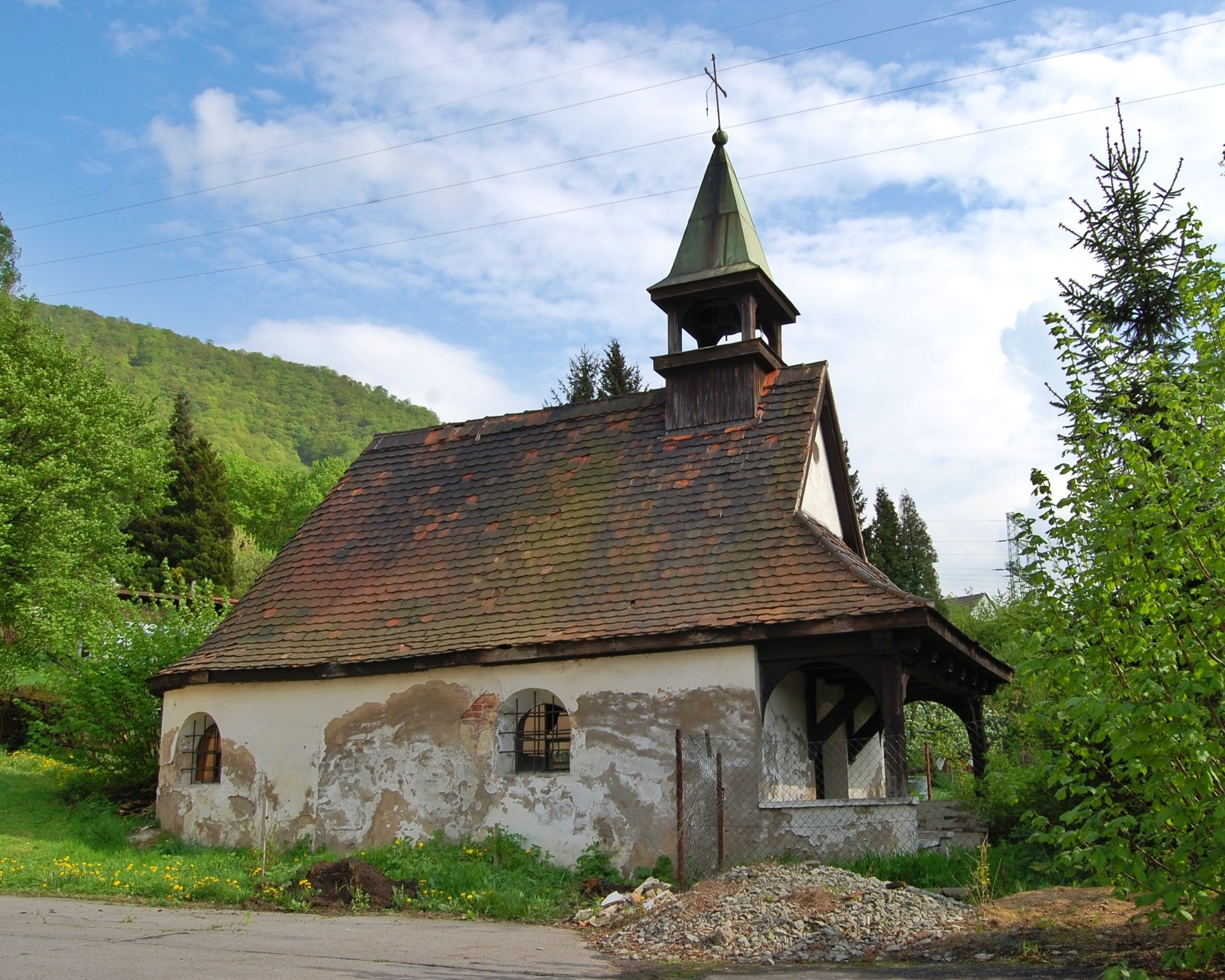 Chapel of the Exaltation of the Holy Cross in Brná nad Labem